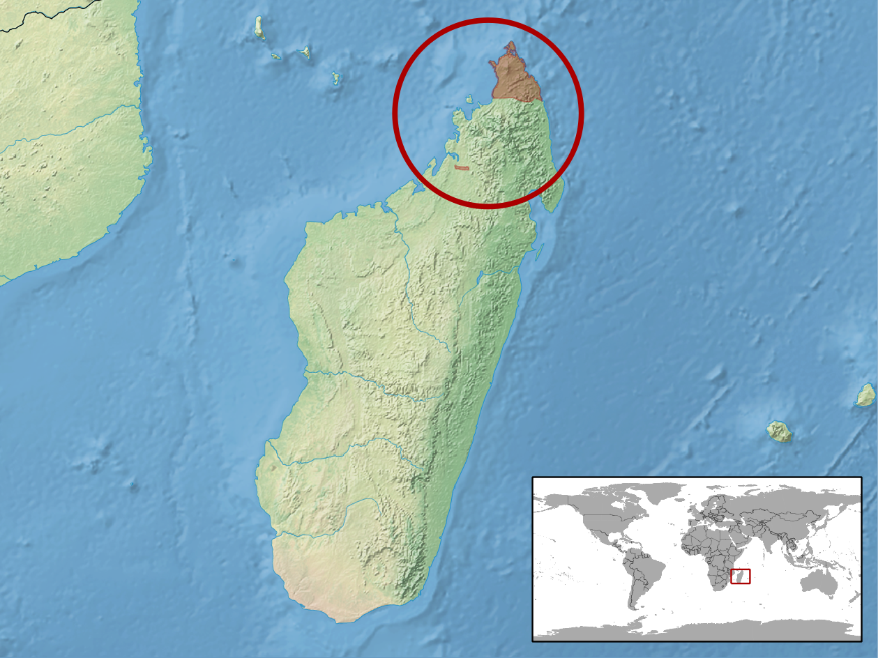 geographic distribution of Furcifer petteri (Native: Madagascar)